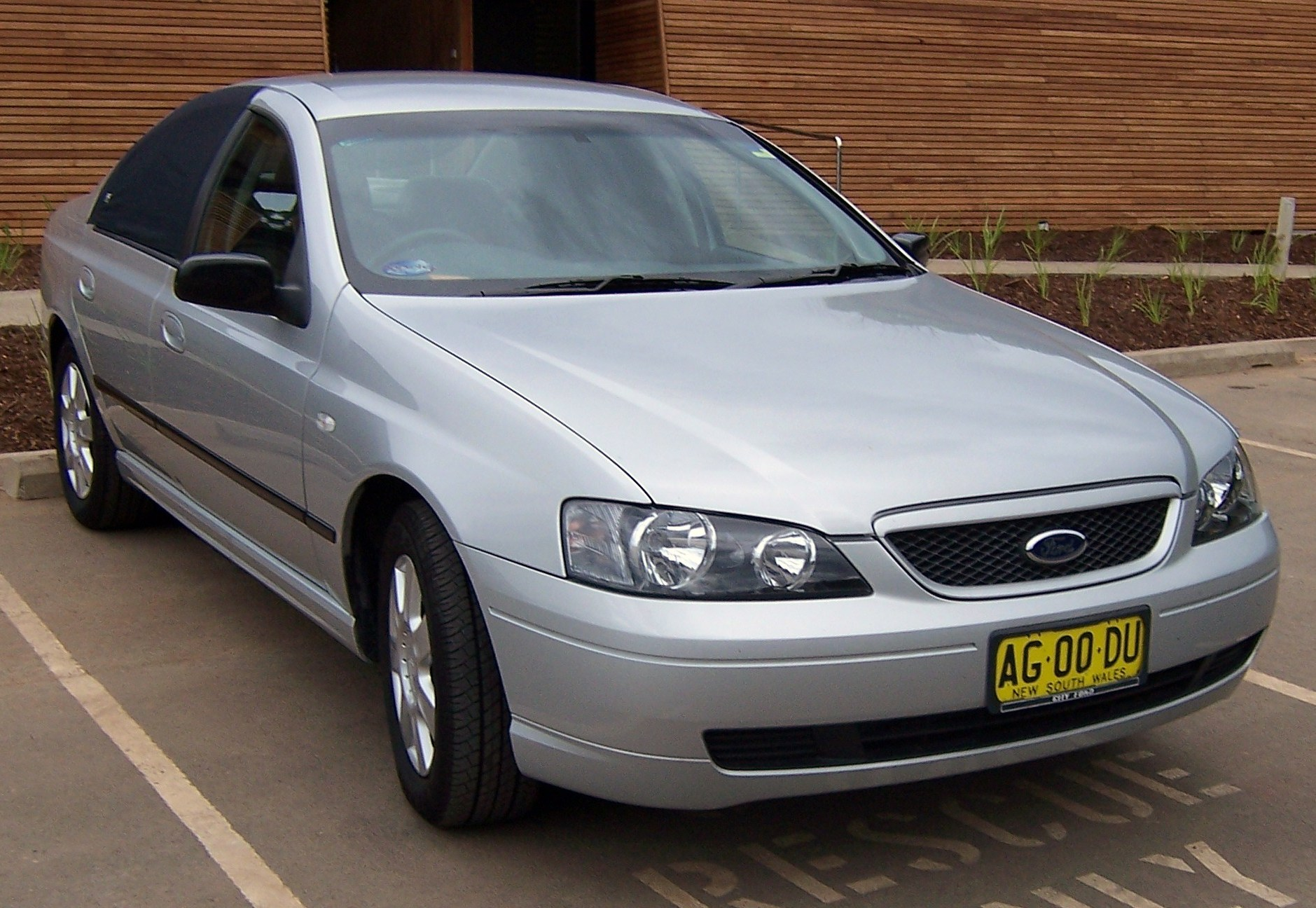 2005 Ford Falcon (BA II) XT sedan. Photographed at Garie Beach, Royal National Park, New South Wales, Australia.